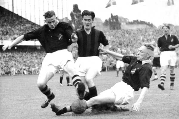 AIK against AC Milan at Råsunda. Nils Liedholm stopped by Lennart Karlsson and Ivan Bodin.